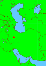 This map was generated using GMT software (the Generic Mapping Tools). Conversion to png format was done using ImageMagick image processing tools.